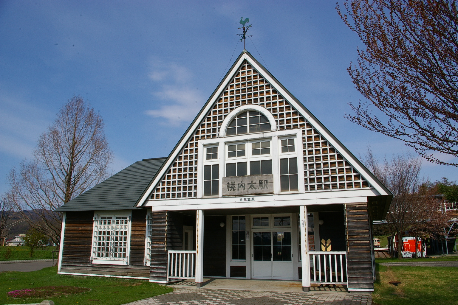 Crawford park, Mikasa city.